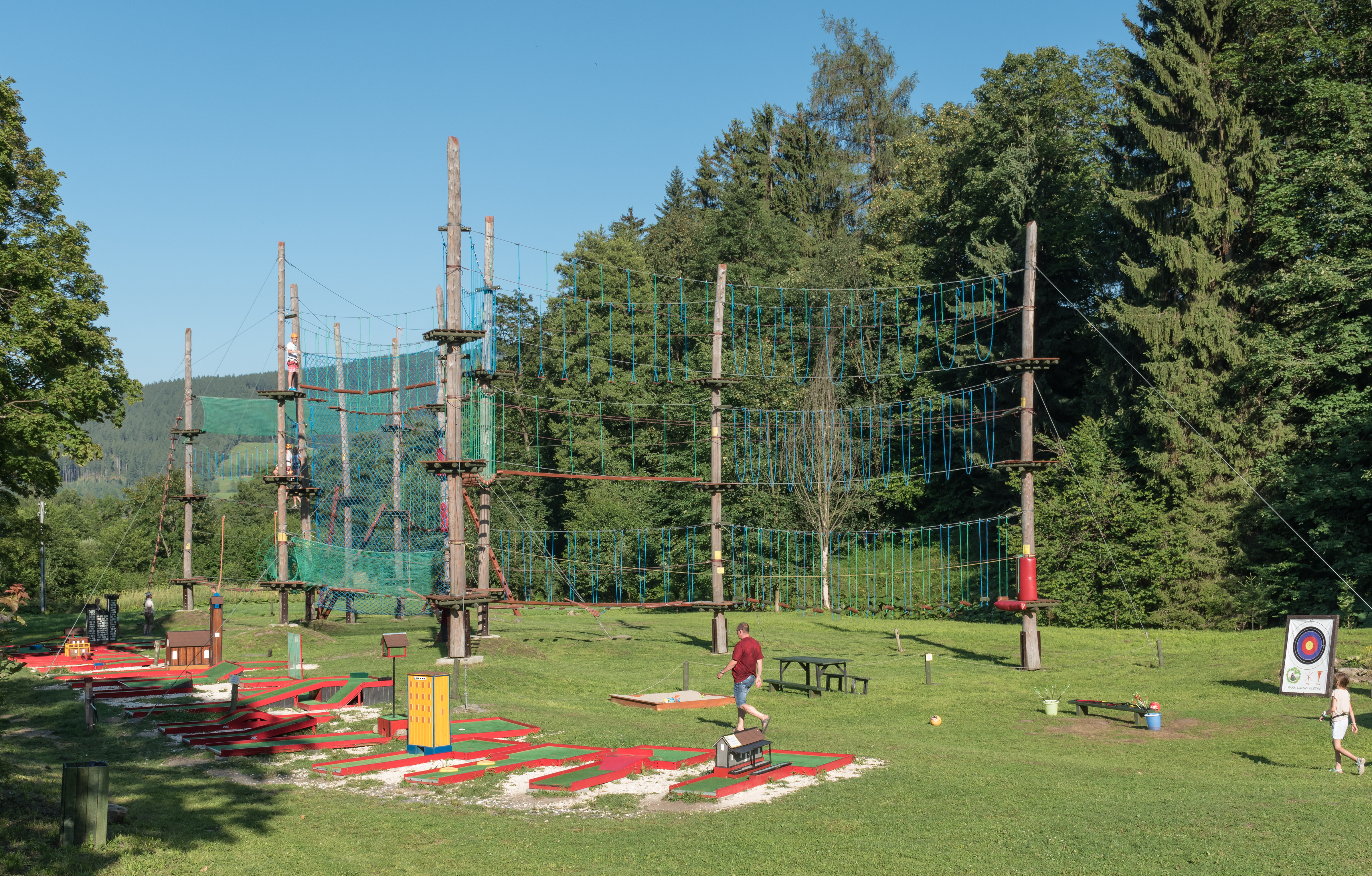 Ropes course in Kletno